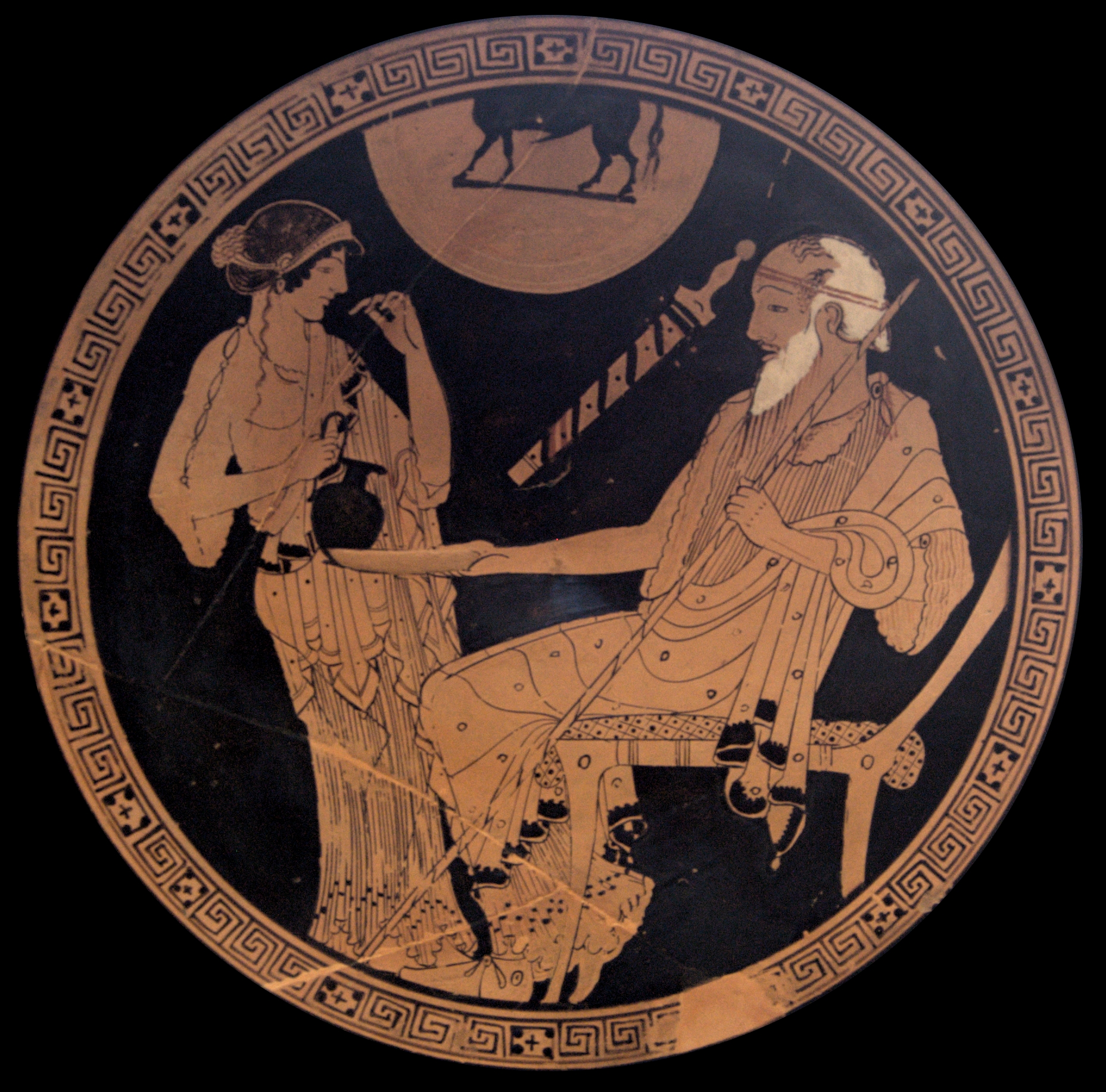 Commonly interpreted as Briseis and Phoenix (Louvre caption, Beazley); minority opinion: Hecamede mixing kykeon for Nestor (A. Dalby, Siren Feasts, London, 1996, p.151). Tondo of an Attic red-figure cup, ca. 490 BC. From Vulci.